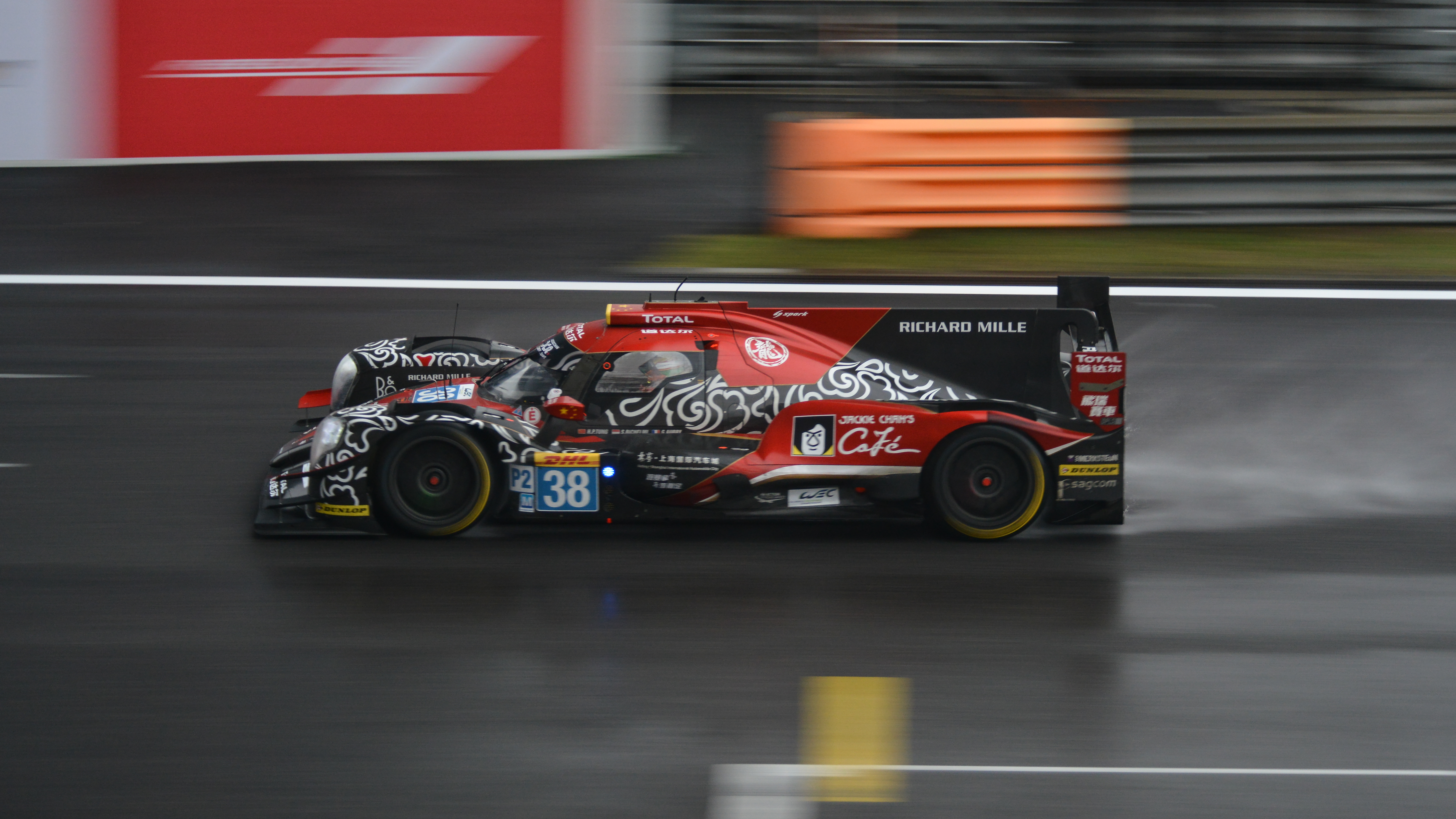 2018 6 Hours of Shanghai.